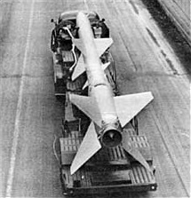 S-75 SAM on a transporter. The original caption read "SA-2 Guide Line missile on transport trailer. (USAF Museum web collection)"